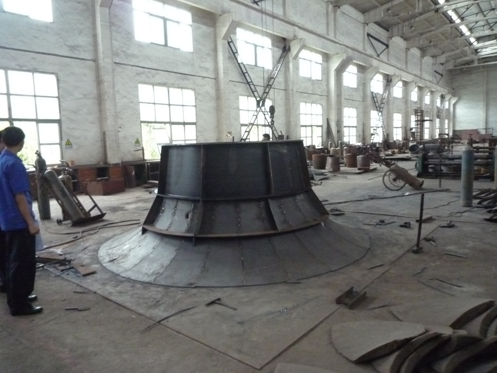 Hydraucone Draft Tube being manufactured for a small hydro project (200 kW) at Moulin D'Aillevens, France